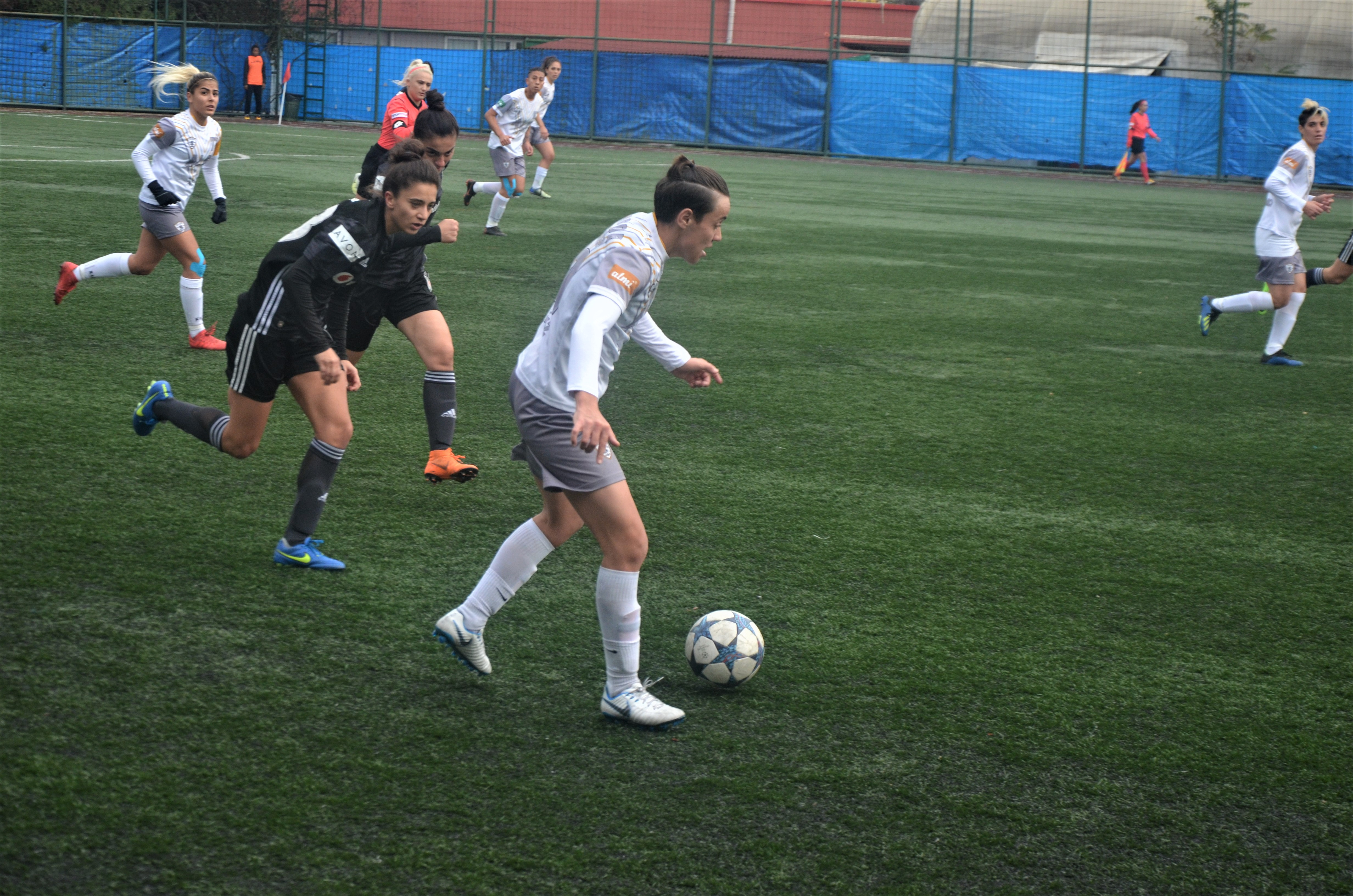 Gülbin Hız of (white/lila) ALG Spor in the 2018-19 Turkish Women's First League.